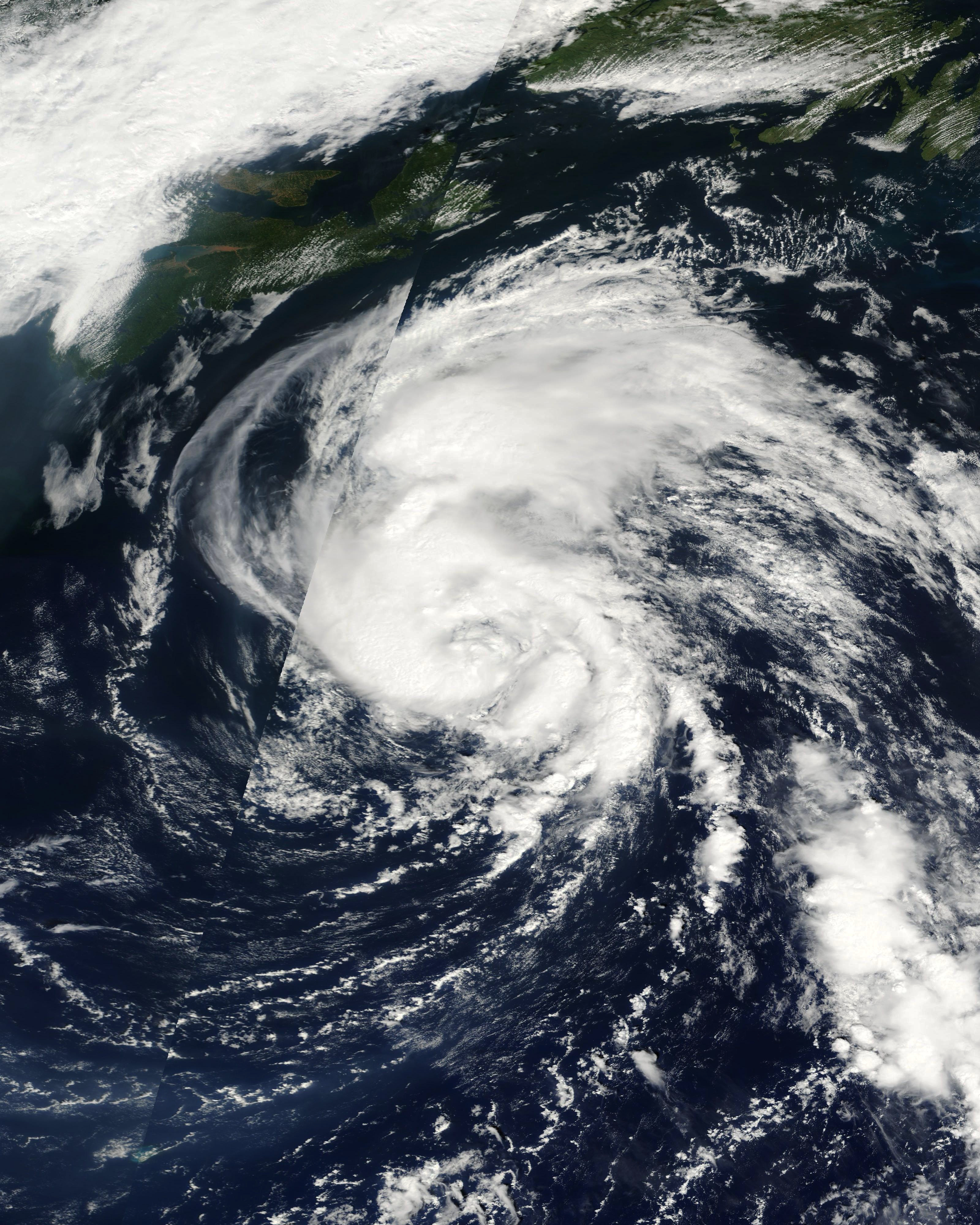 Tropical Storm Dean on August 27, 2001